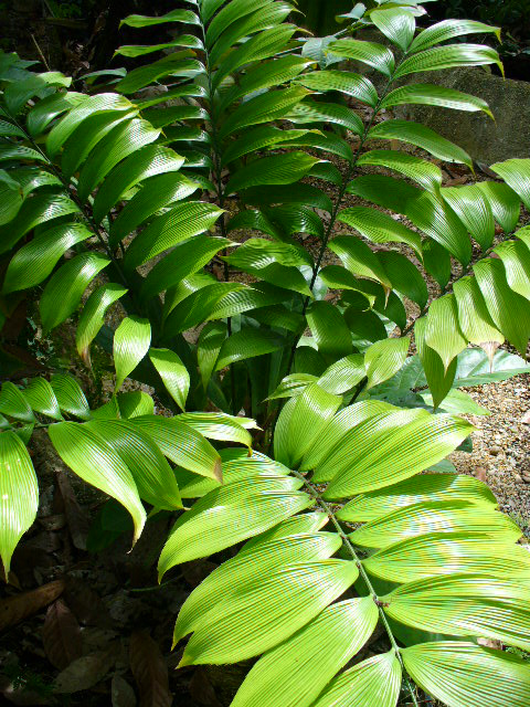 Zamia neurophyllidia, Wertheim Conservatory, Florida International University, Miami, USA